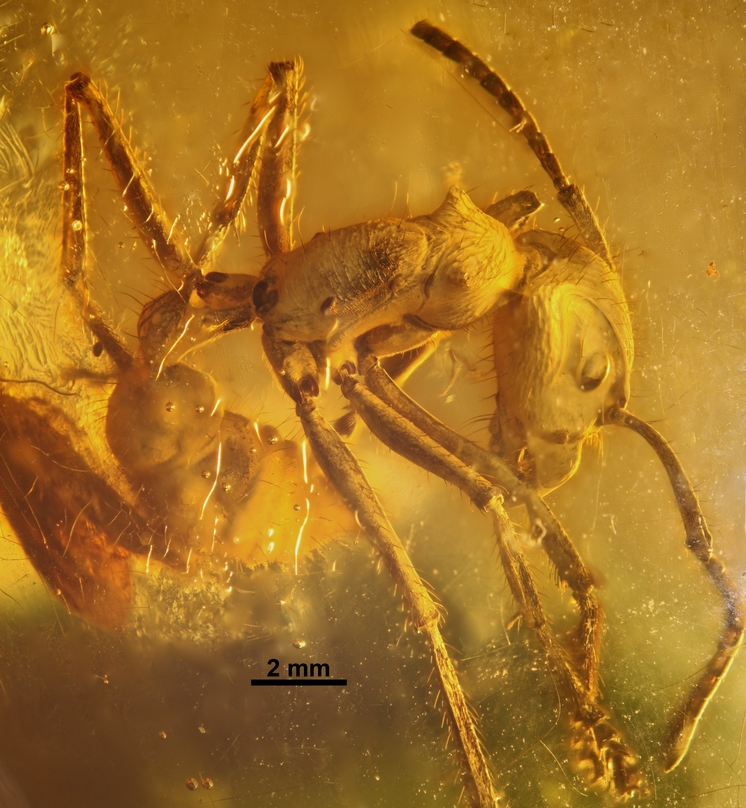 Paraponera dieteri fossil